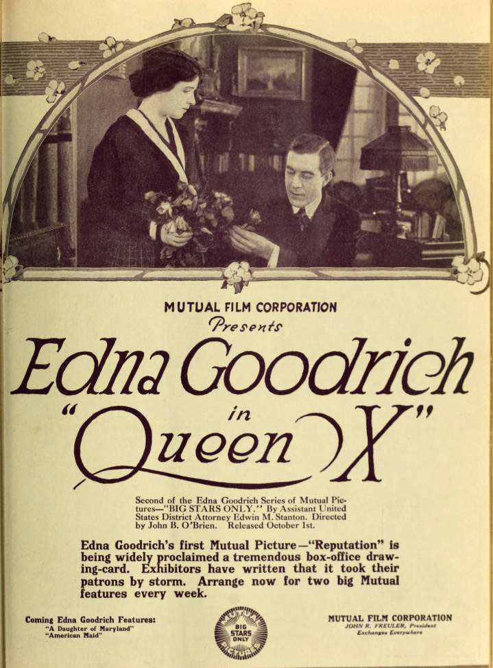 Advertisement in Moving Picture World for the American film Queen X (1917) with Edna Goodrich.